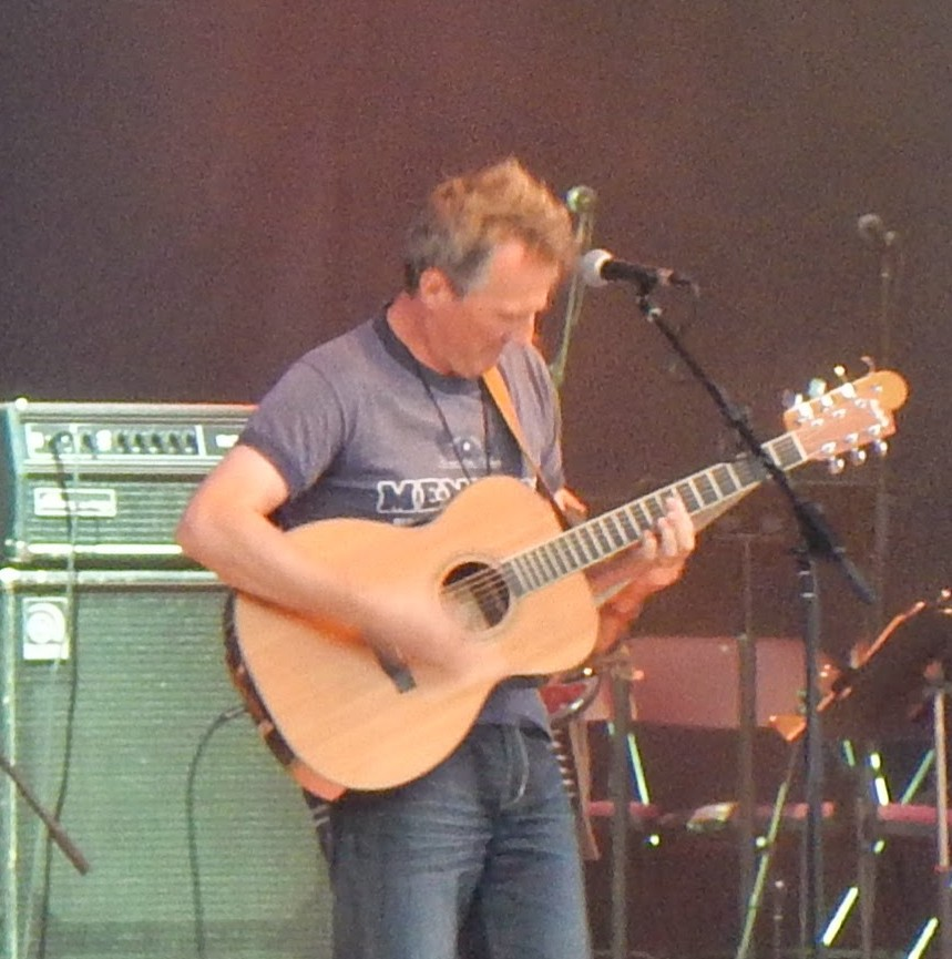 Performing at Northern Lights Festival Boreal on the evening of Saturday, July 6, 2014, Bell Park, Sudbury, Ontario, Canada